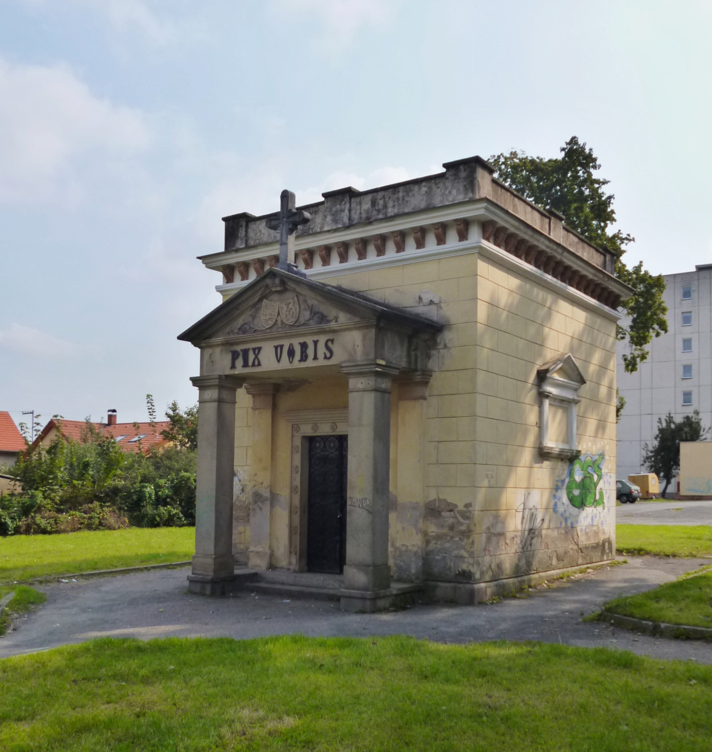 address: situated to the east of Secondary Technical School, Vlašim (Komenského 41, Vlašim, Czech Republic) name in